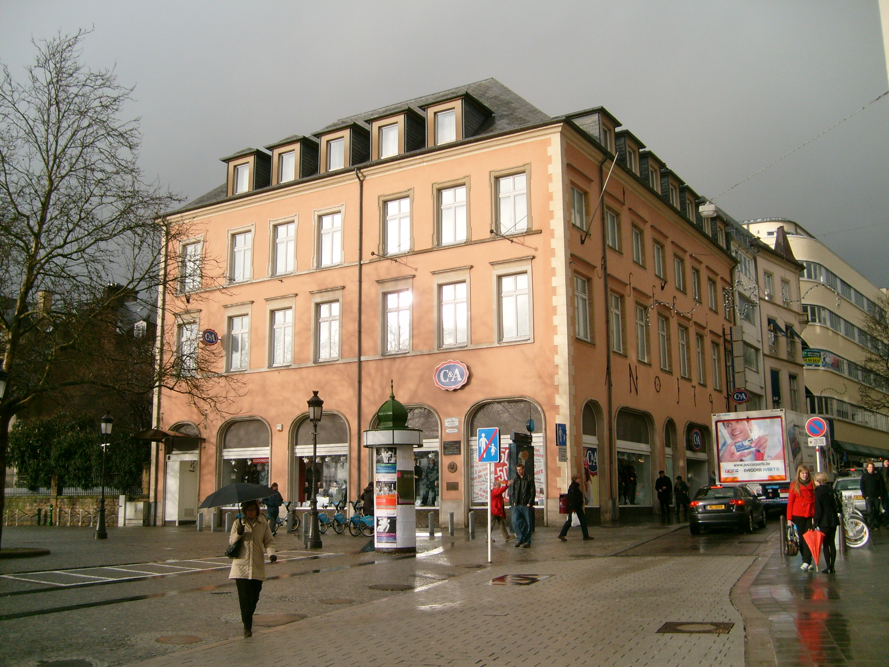 The birthhouse of Edmond de la Fontaine in Luxembourg city.